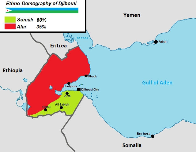 Ethno-Demographic map of the Republic Of Djibouti